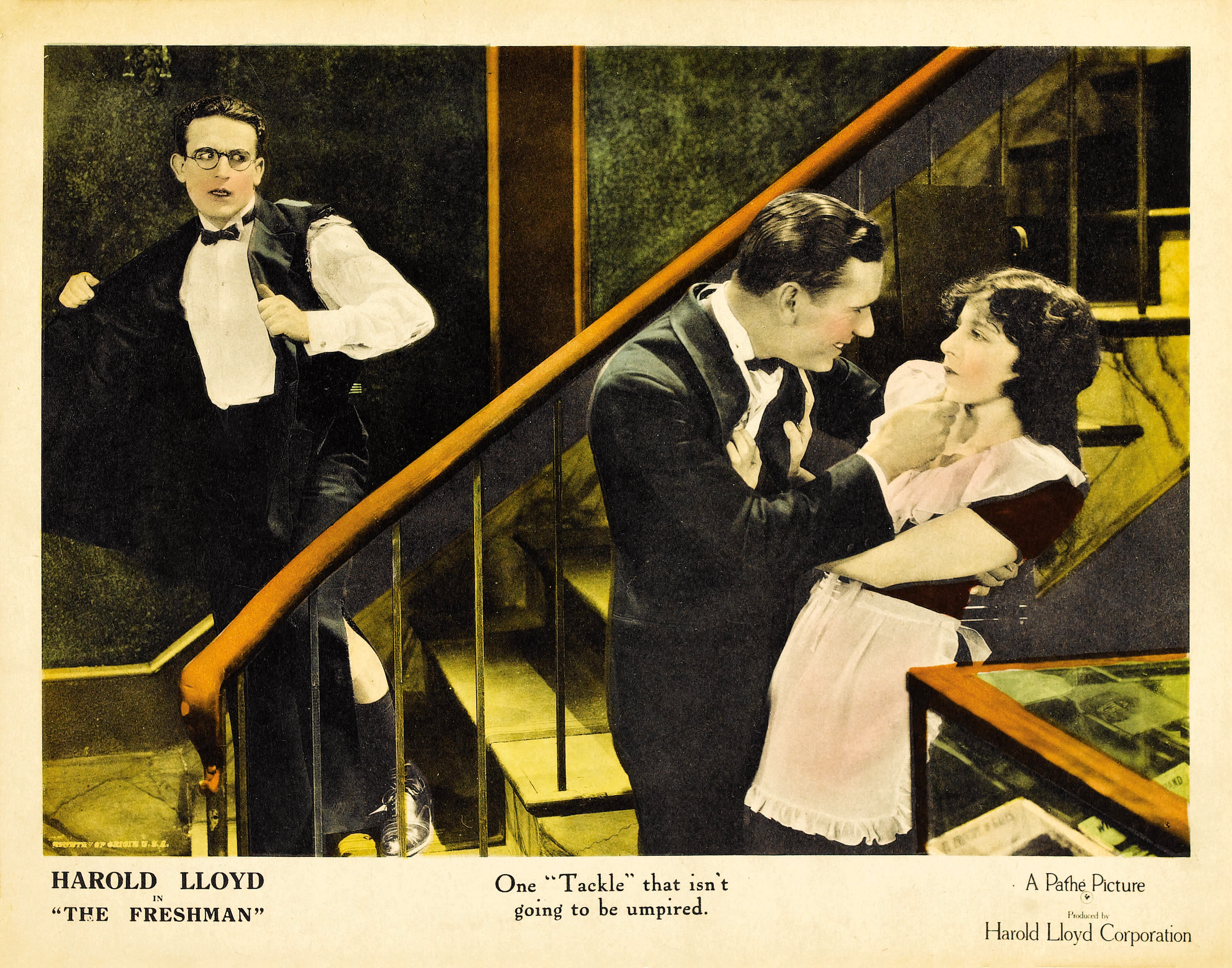 Film poster for the 1925 Harold Lloyd vehicle The Freshman (1925), with Harold Lloyd, Brooks Benedict, and Jobyna Ralston.